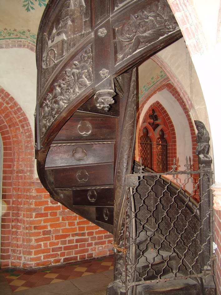 Malbork castle 19